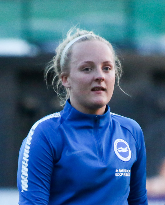 London Bees v Brighton & Hove Albion WFC, 18 April 2018 - Chloe Peplow & Lucy Somes